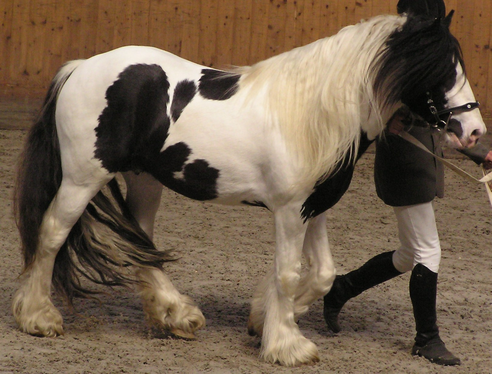 Irish Tinker horse; horse show, Císařský ostrov, Prague, Czech Republic